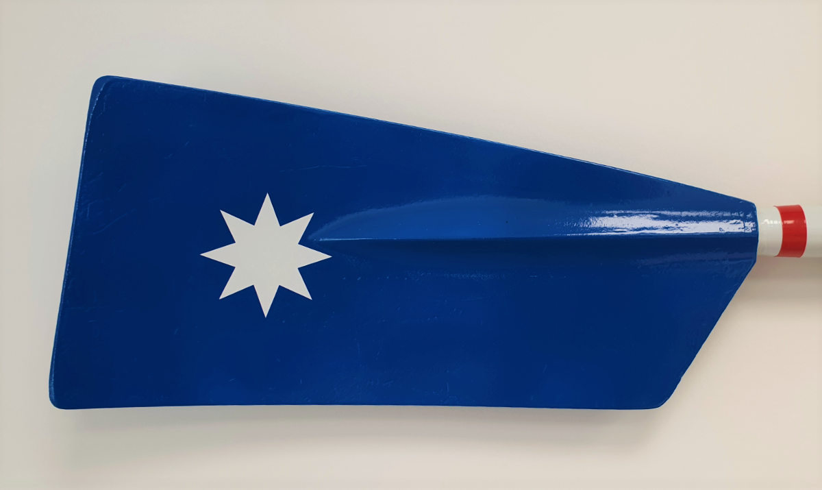 Old rowing blades of the Kölner Rudergesellschaft 1891 from Cologne, Germany.